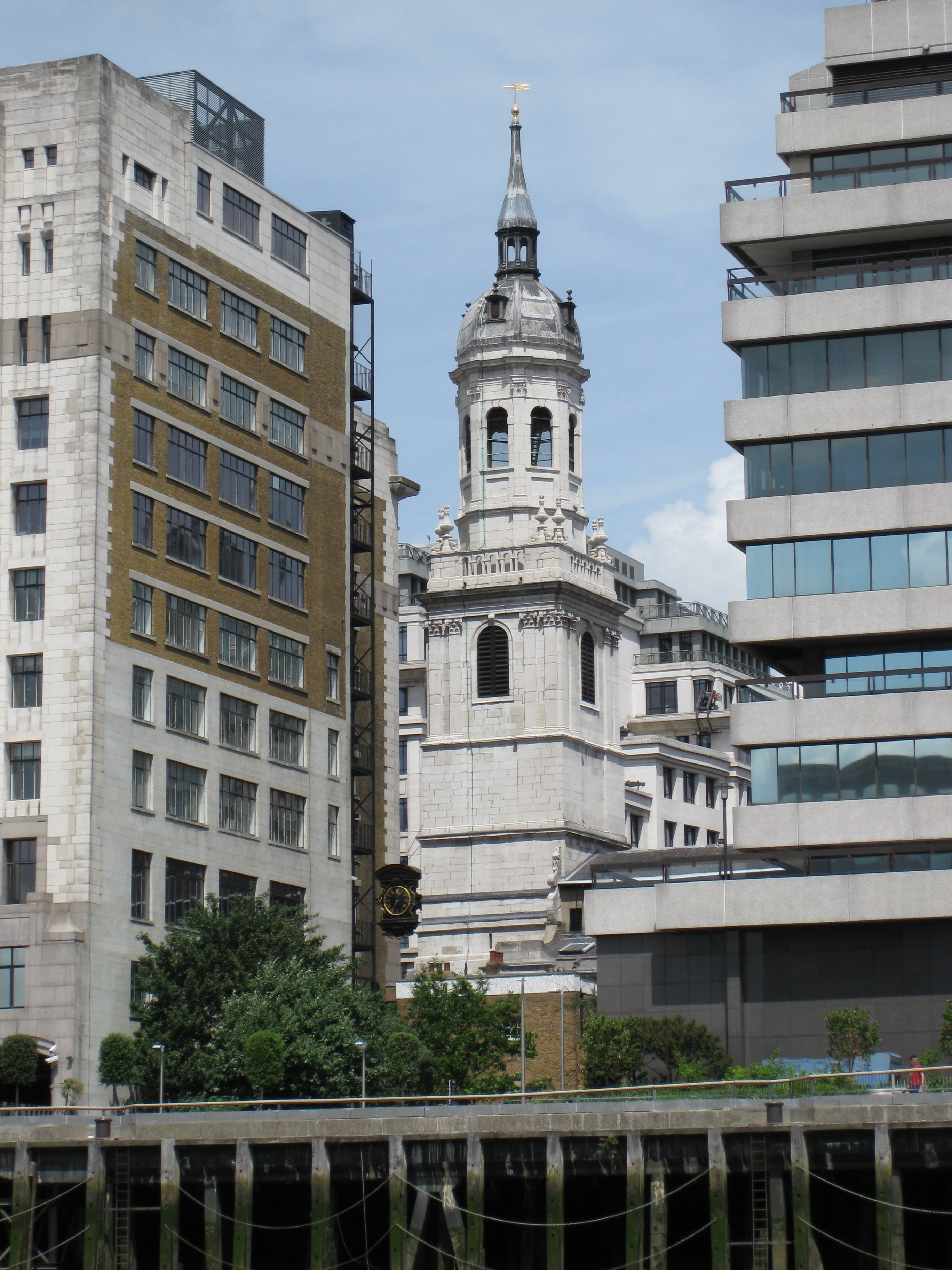 St Magnus-the-Martyr from the Thames